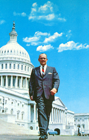 Albert W. Johnson, US Representative from Pennsylvania